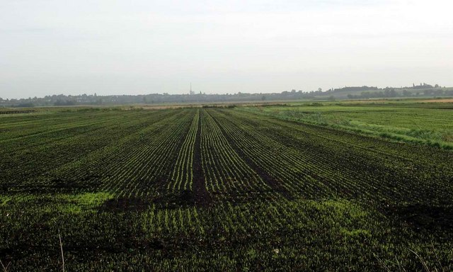 New sowing in Adventurers' Head